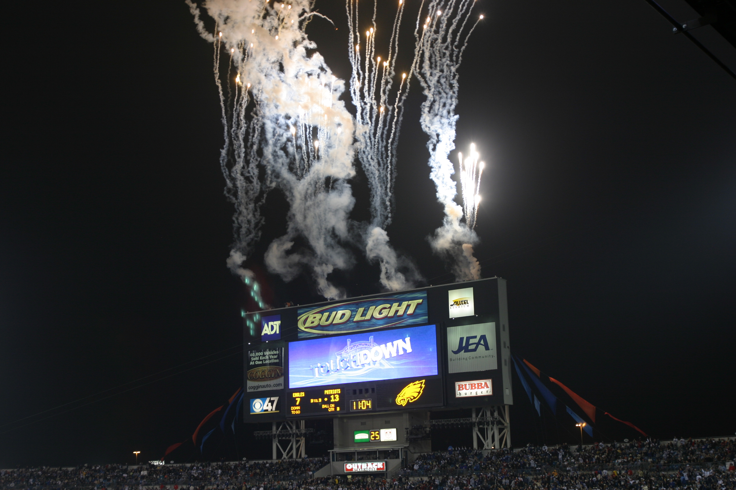 Fireworks shoot off after a touchdown at Super Bowl XXXIX. The Patriots went on to beat the Eagles 24-21.